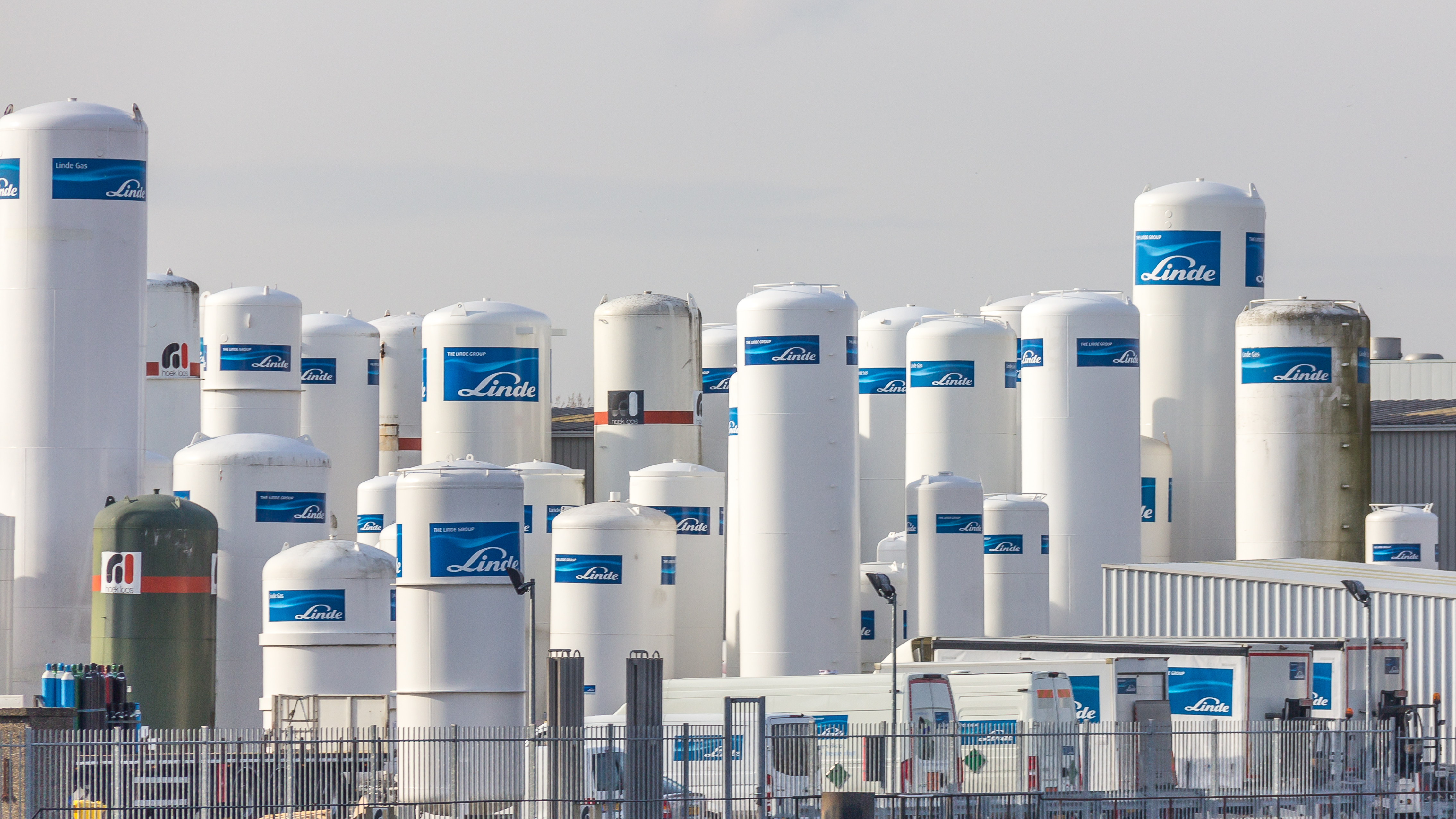 Storage tanks for gas by Linde group, Spuihaven, Schiedam, Rotterdam